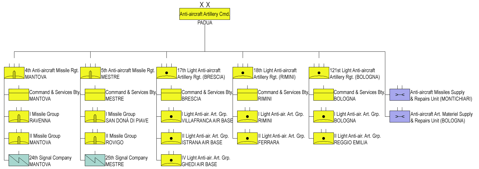 Structure of the Italian Army Anti-aircraft Artillery Command in 1974